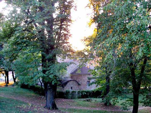 Archangel Michael church in Beljina